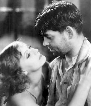 Promotional photograph for the film Susan Lenox (Her Fall and Rise), starring Greta Garbo and Clark Gable